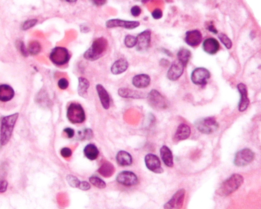 Very high magnification micrograph showing a fetal parvovirus infection. Placenta. H&E stain. Parvovirus infects nucleated red blood cells (RBCs). The images show normal RBCs and ones infected with parvovirus, that have the characteristic nuclear enlargement with a glassy (red) inclusion. Parvovirus causes erythema infectiosum, also known as fifth disease and slapped cheek disease. Related images High mag. Very high mag. Very high mag. Very high mag. (cropped - version 1) Very high mag.j (cropped - version 2)